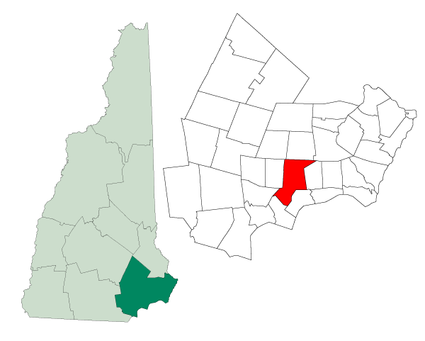 Map of a municipality in Rockingham County, New Hampshire